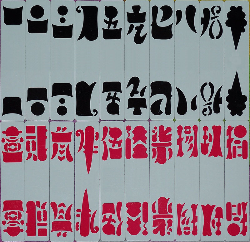 Leshan Erqishi (Qiaozipai) Cards